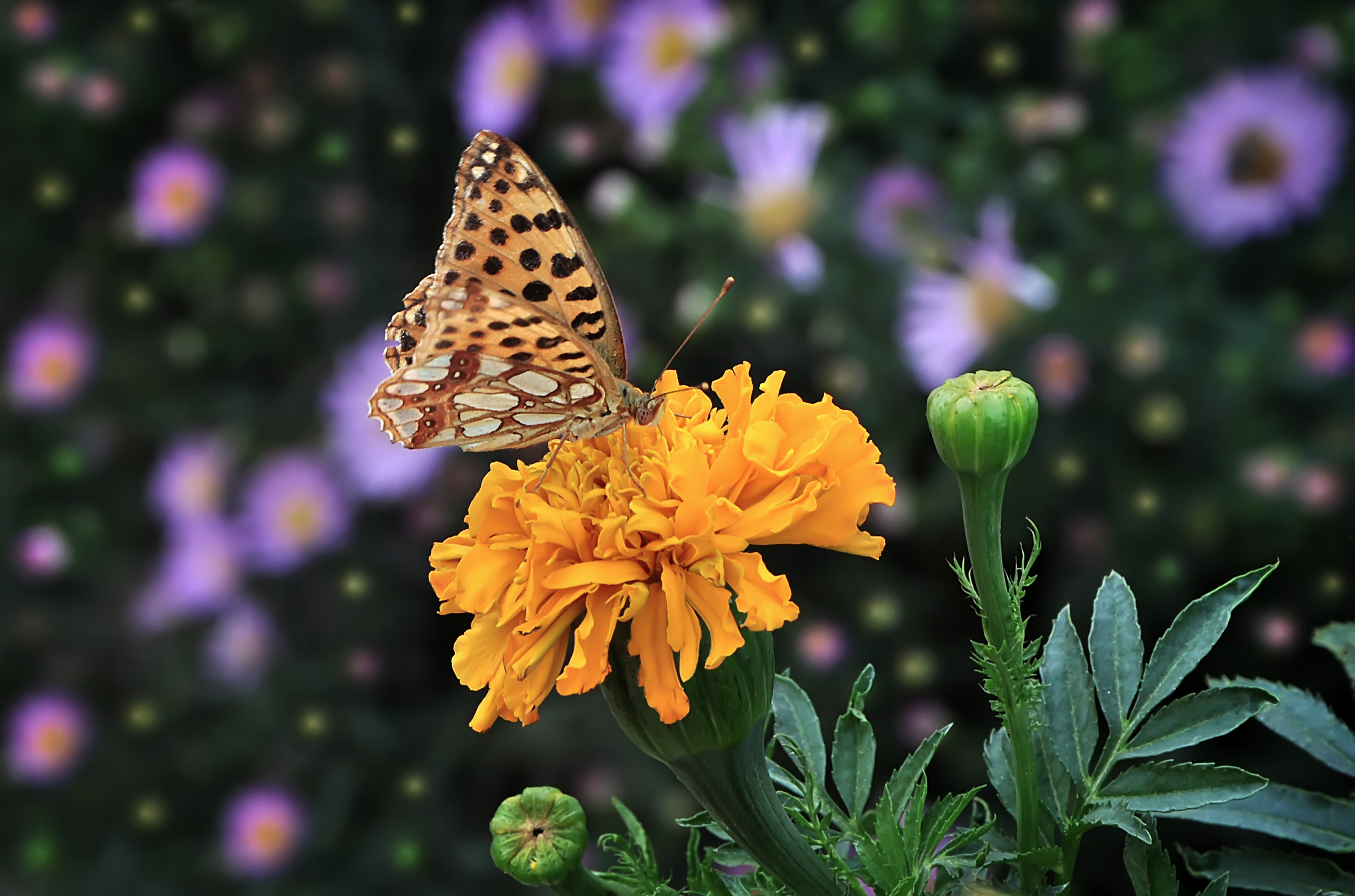 Flutura ne lule